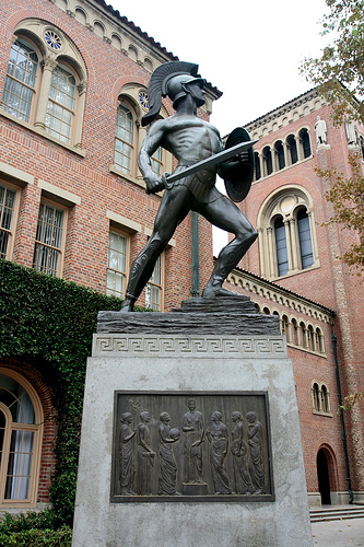 I took this picture myself on the USC Campus. Please observe license and properly cite in use outside Wikipedia.